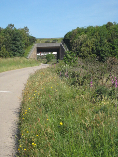 The A30 overbridge at Carnhot Carrying the A30 over the minor road between Blackwater and Chacewater.